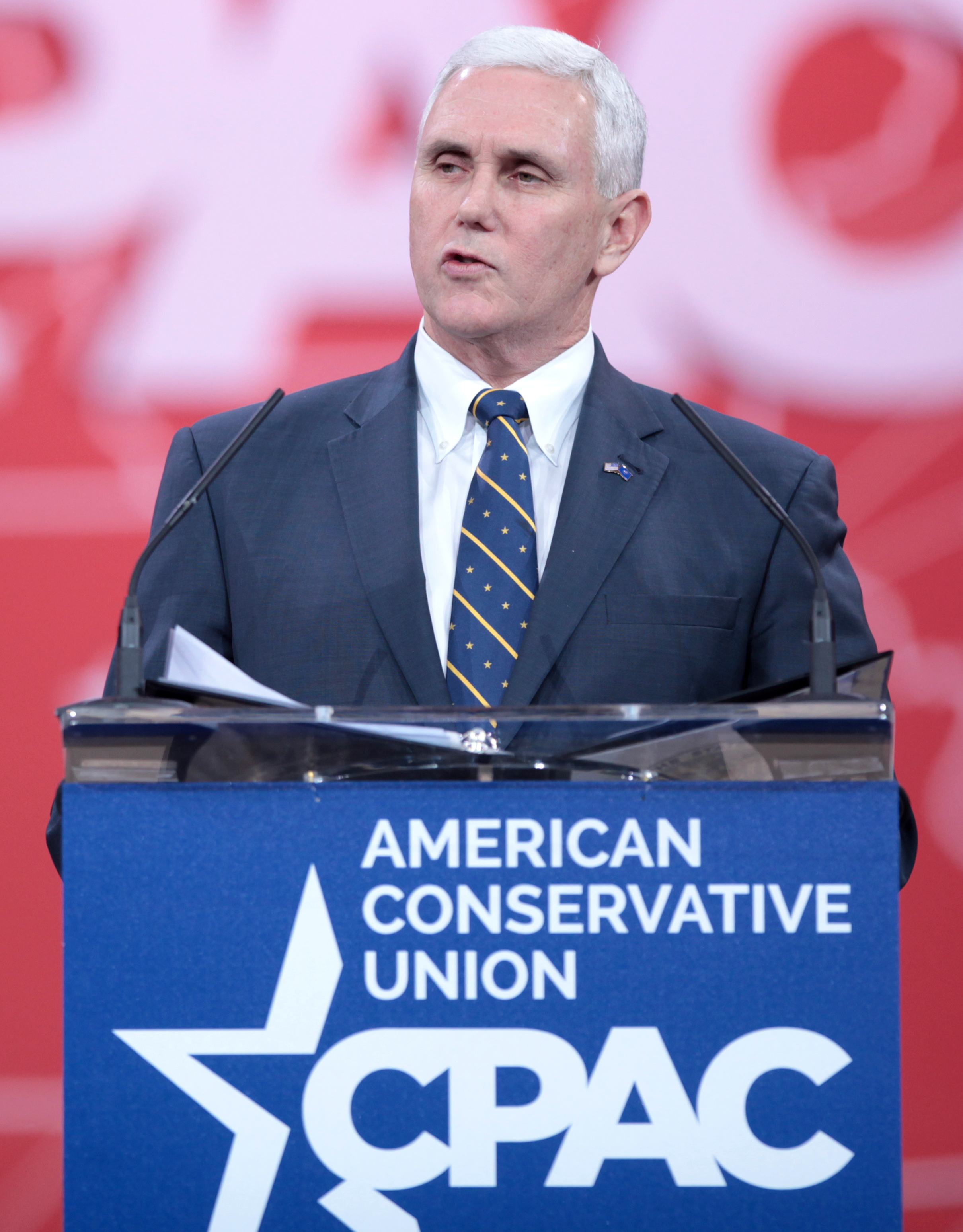 Mike Pence speaking at CPAC 2015 in Washington, DC.